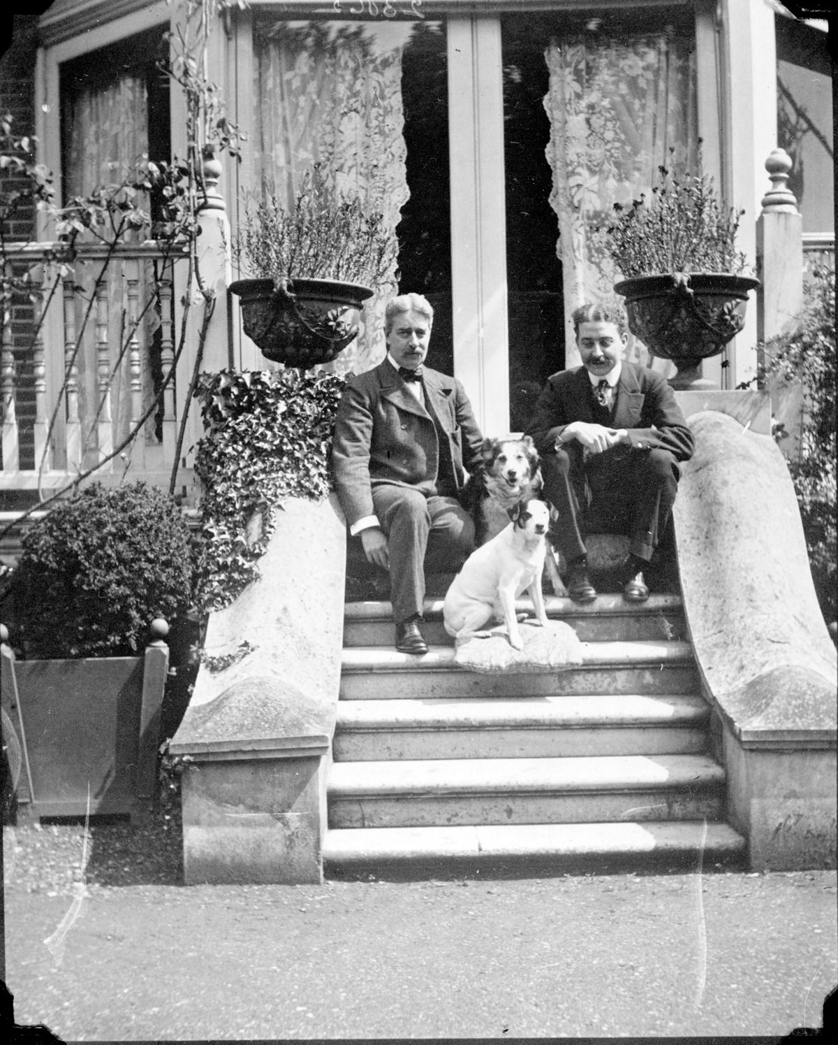 Edith Wharton collection/Beinecke 10558628. Howard Sturgis and William Haynes Smith on the steps with two dogs at Queen's Acres, Windsor, before 1920